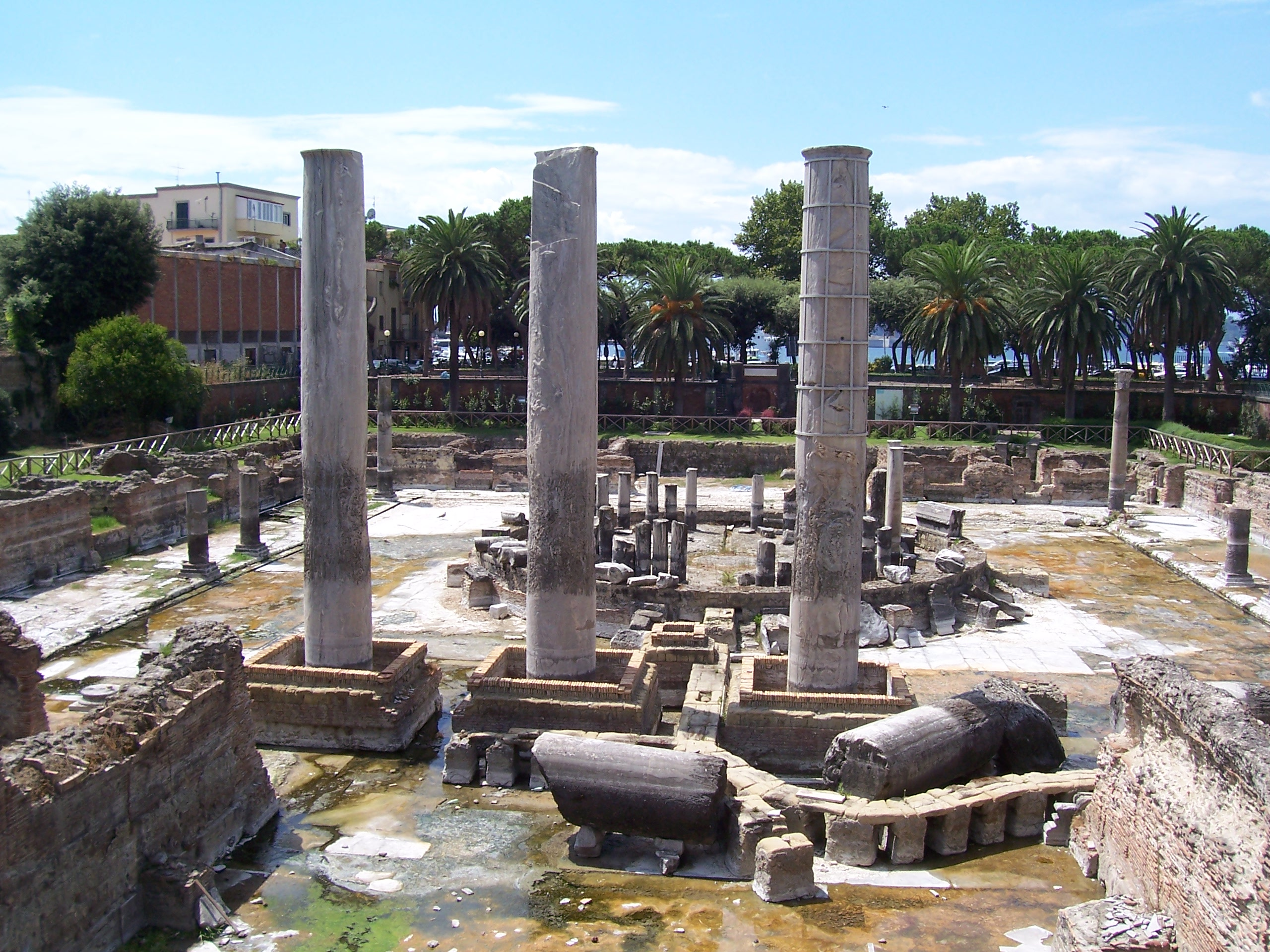 Serapeum, roman temple dedicated to the god Serapis, Pozzuoli, Italy.